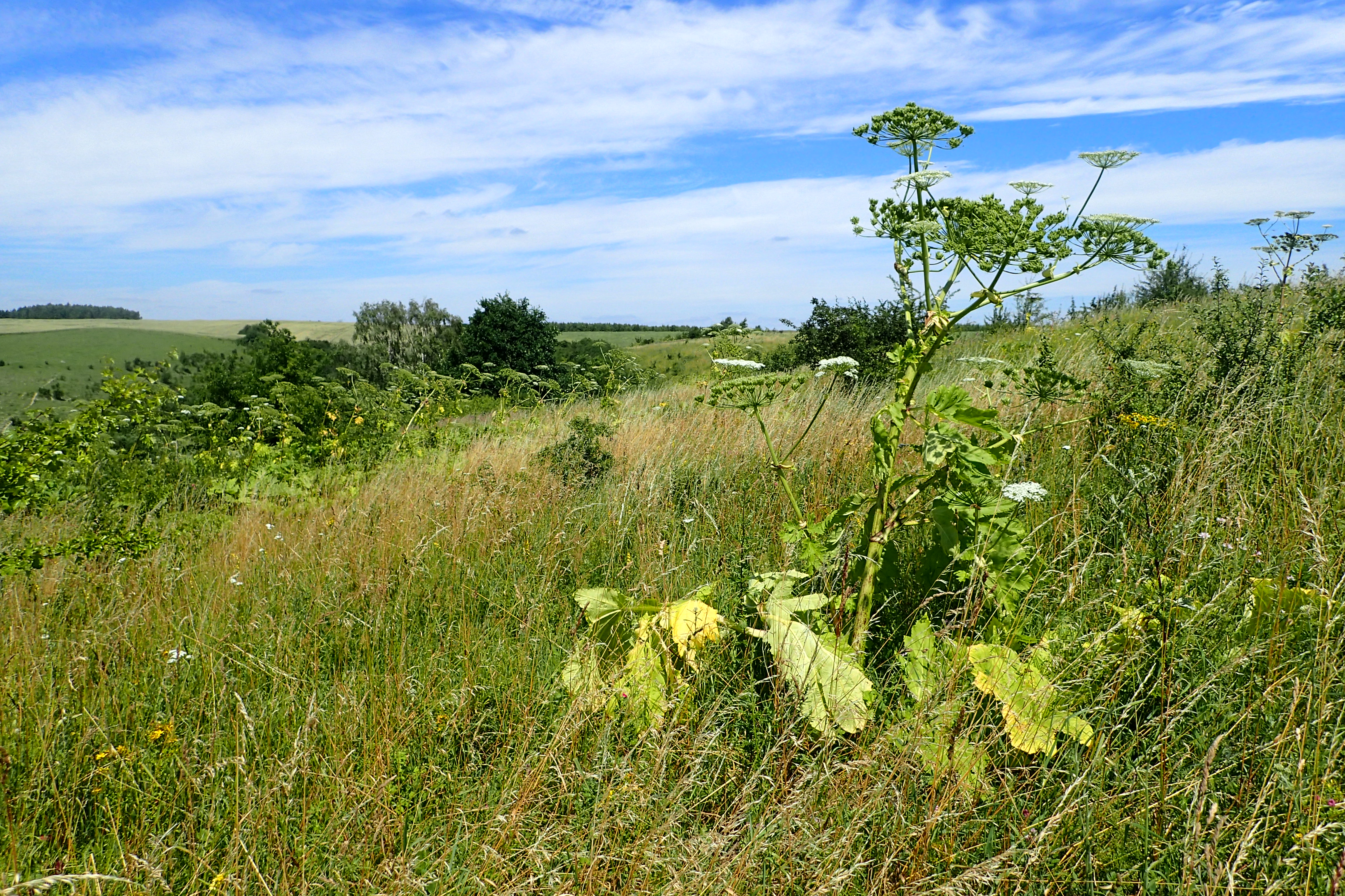 Heracleum sosnowskyi on Warta river valley between Czechów and Santok in Gorzów Wlkp. vicinity (NW Poland)